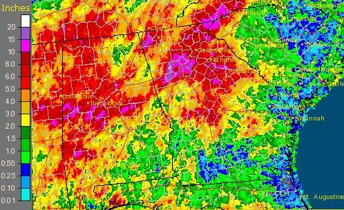 A map showing the record rainfall over the state of Georgia for a one-week period ending September 23, 2009. This includes the events causing the flooding in the state.